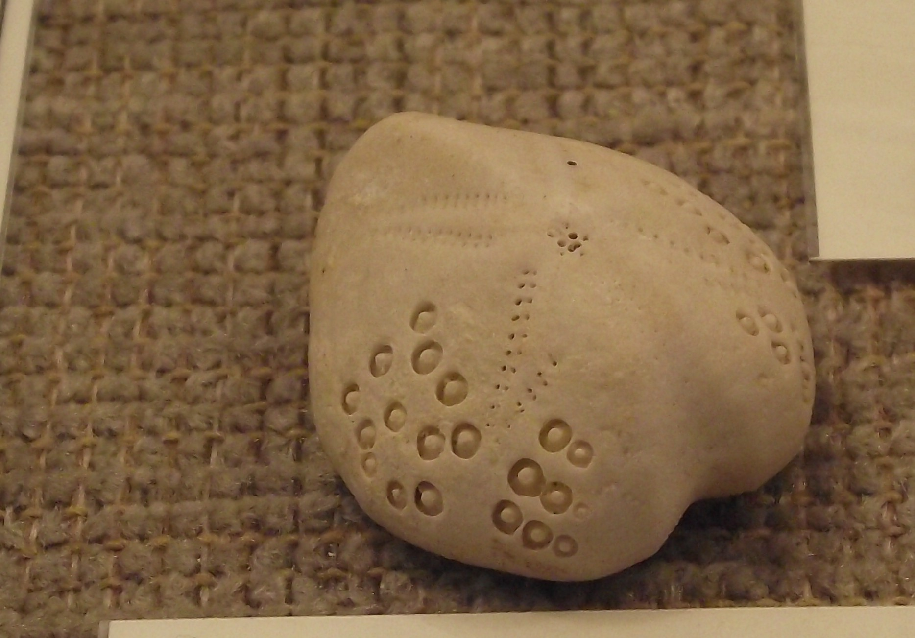 Lovenia forbesi fossil from Australia, on display at the San Diego County Fair, California, USA.